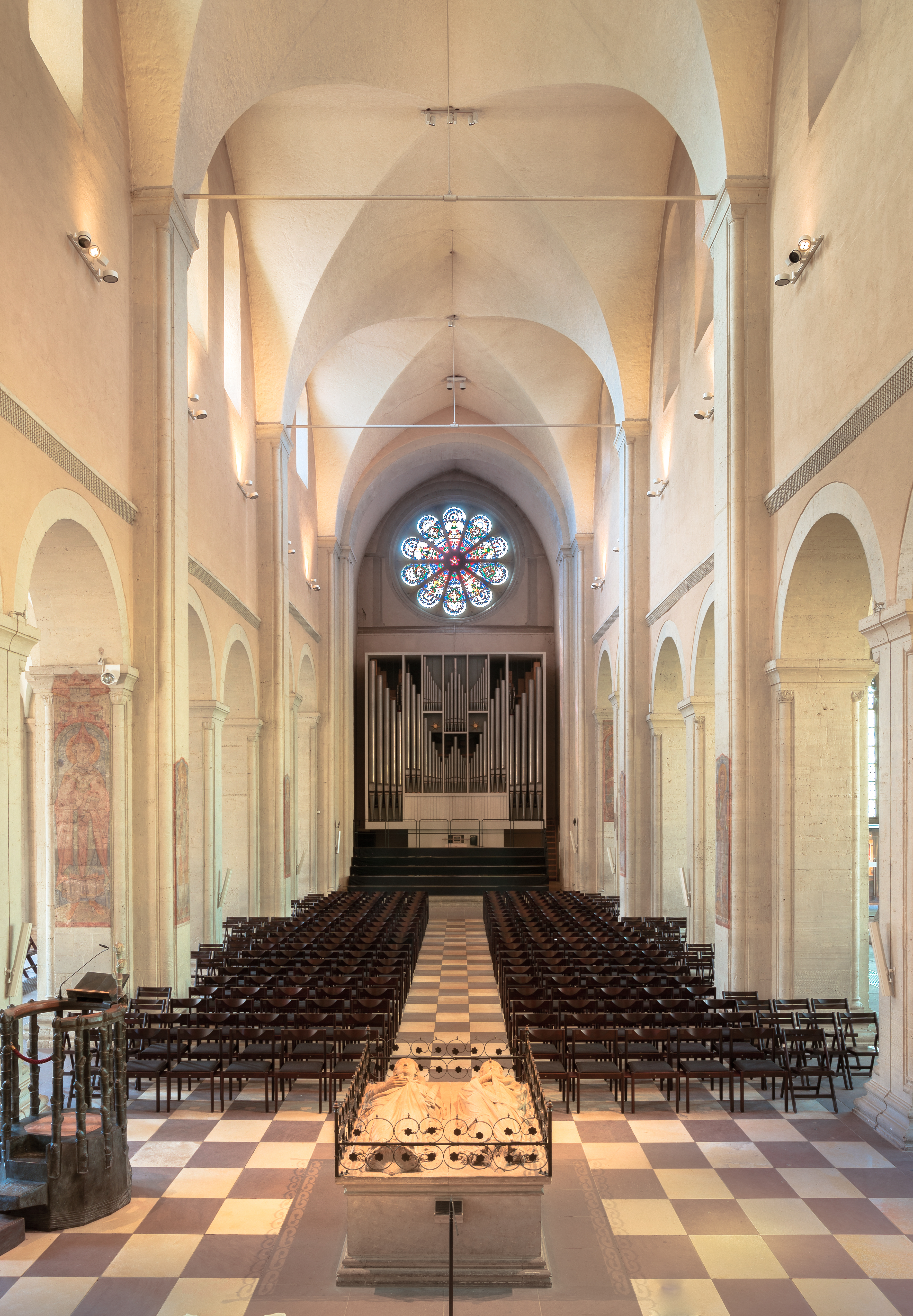 Brunswick Cathedral. View along the nave towards the organ. Brunswick, Lower Saxony/Germany.